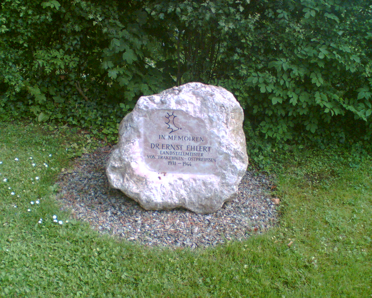 memorial in Hunnesrück, Germany, for Dr. Ernst Ehlert (last equerry of the Trakehner stud farm in Trakehnen, East Prussia)